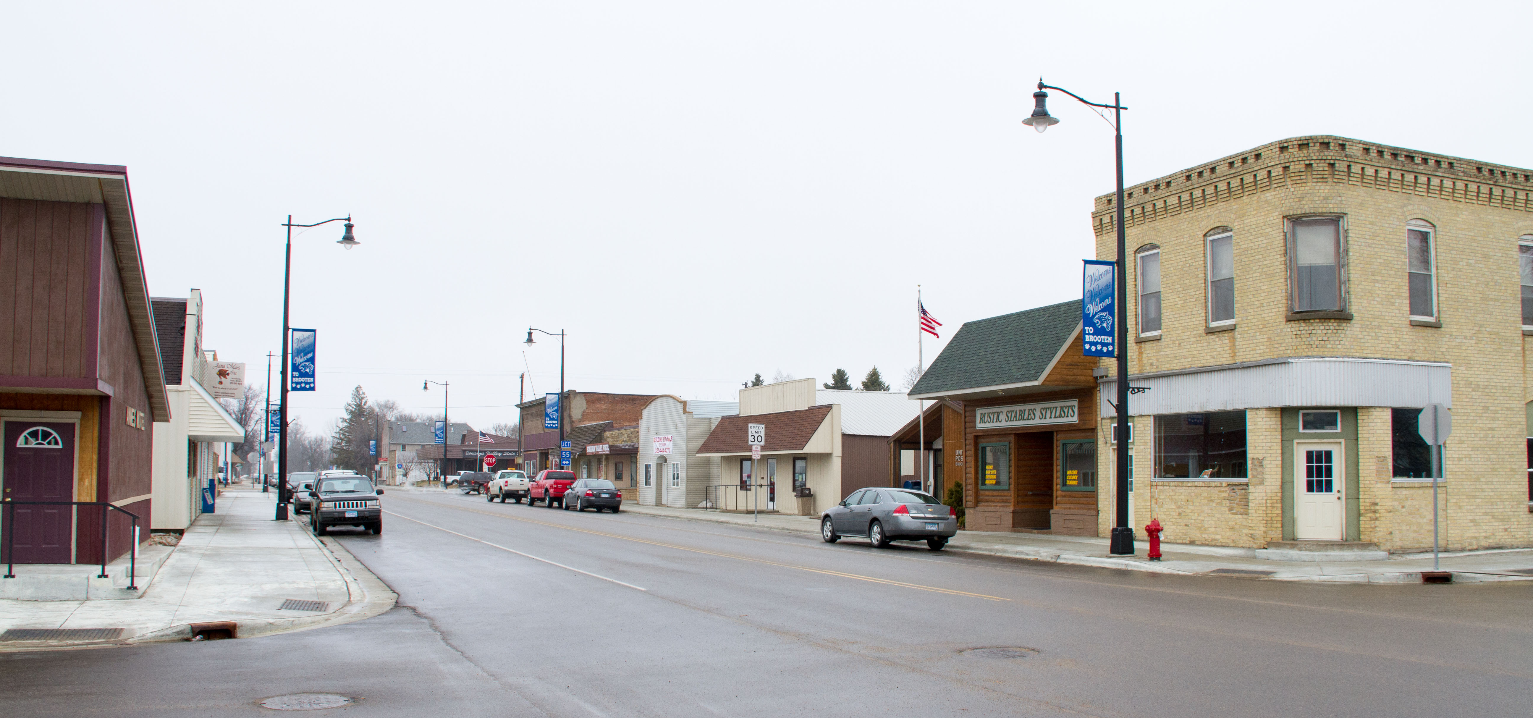 Downtown Brooten, Minnesota, USA; along Central Avenue, facing south.